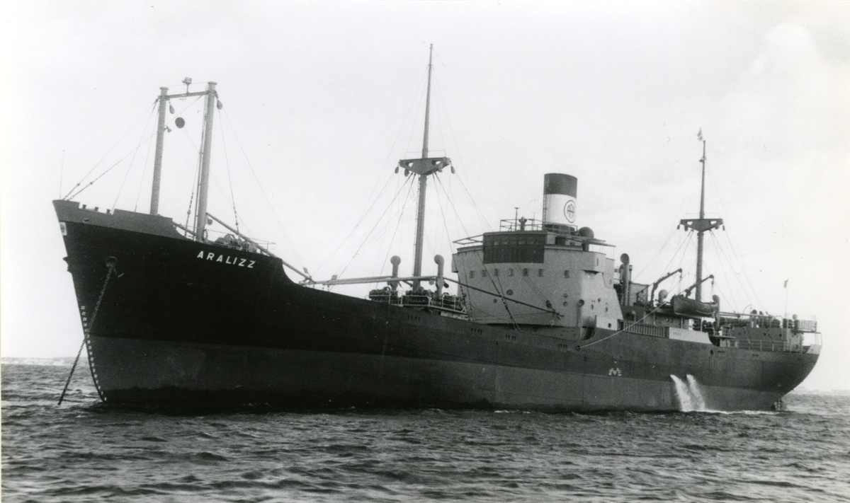 The Swedish merchant vessel Aralizz